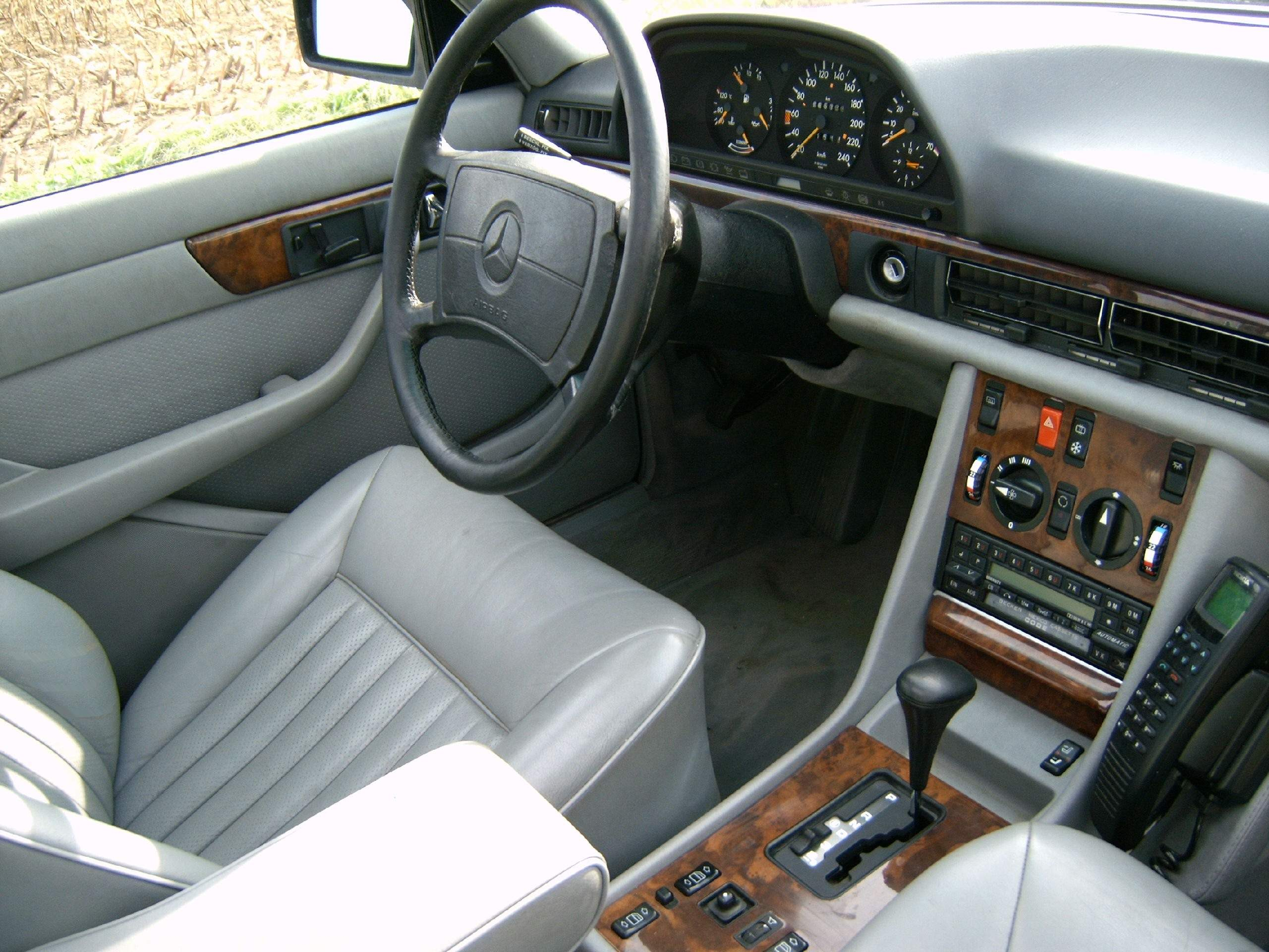 W126 S-Class driver's seat with SRS airbag.